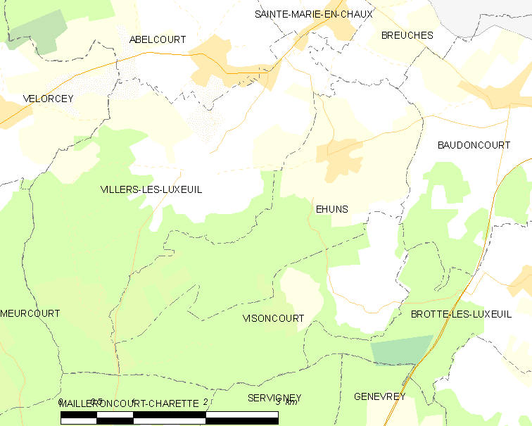 Map of French municipality